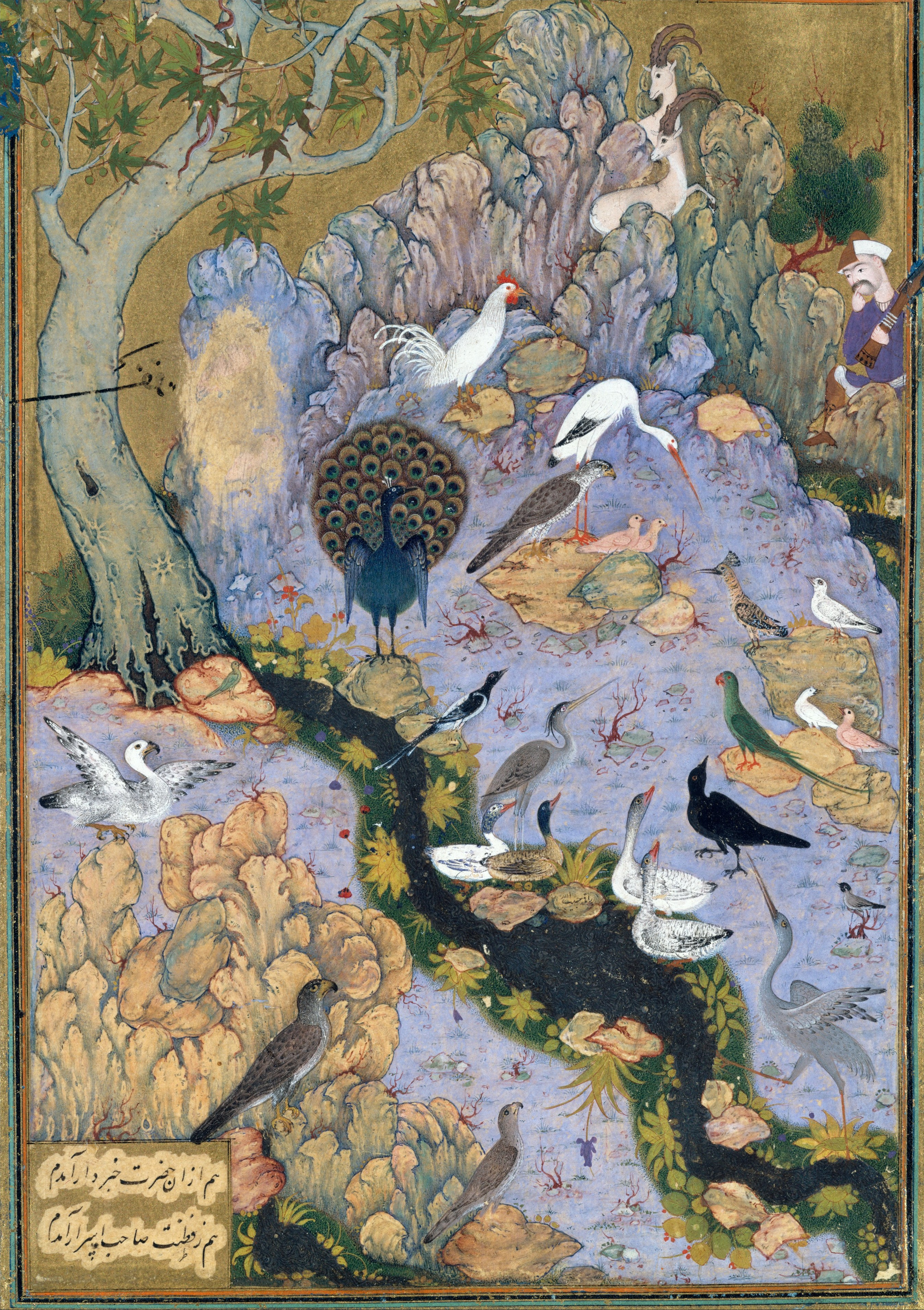 Folio from an illustrated manuscript; Codices